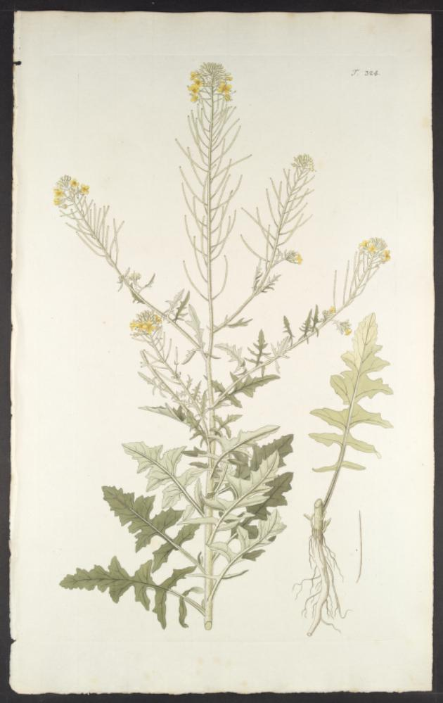 Illustration of Sisymbrium loeselii